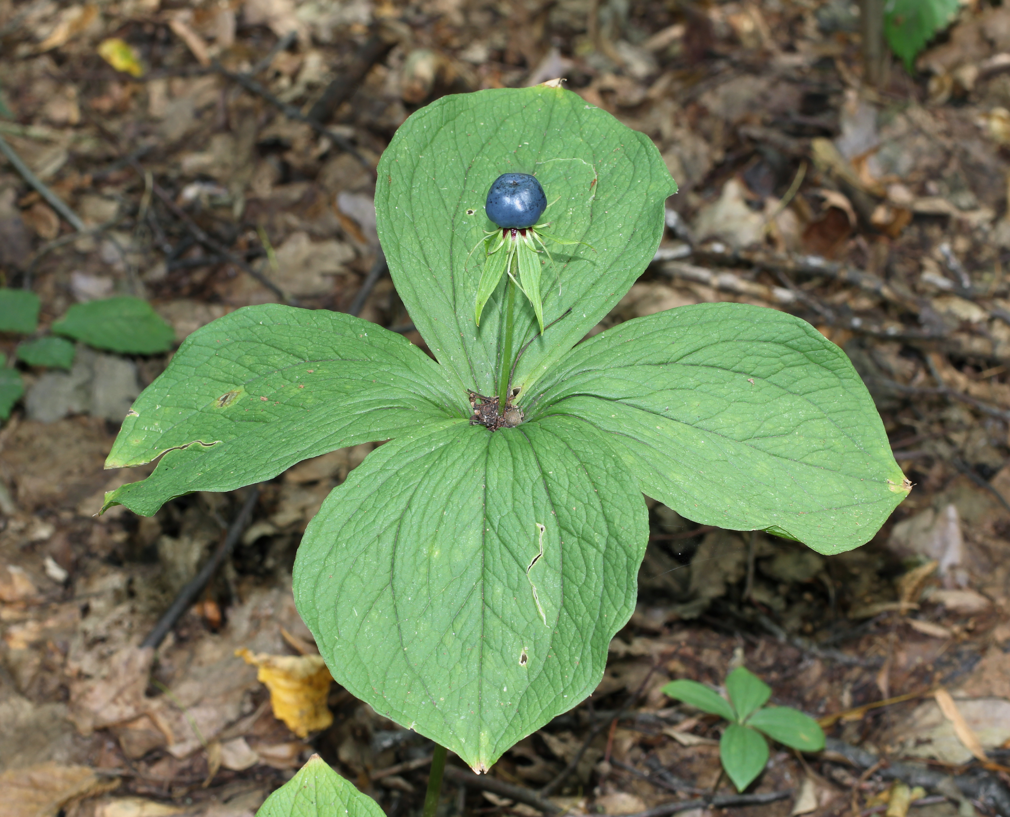 Herb Paris, True-lover's Knot. Ukraine.